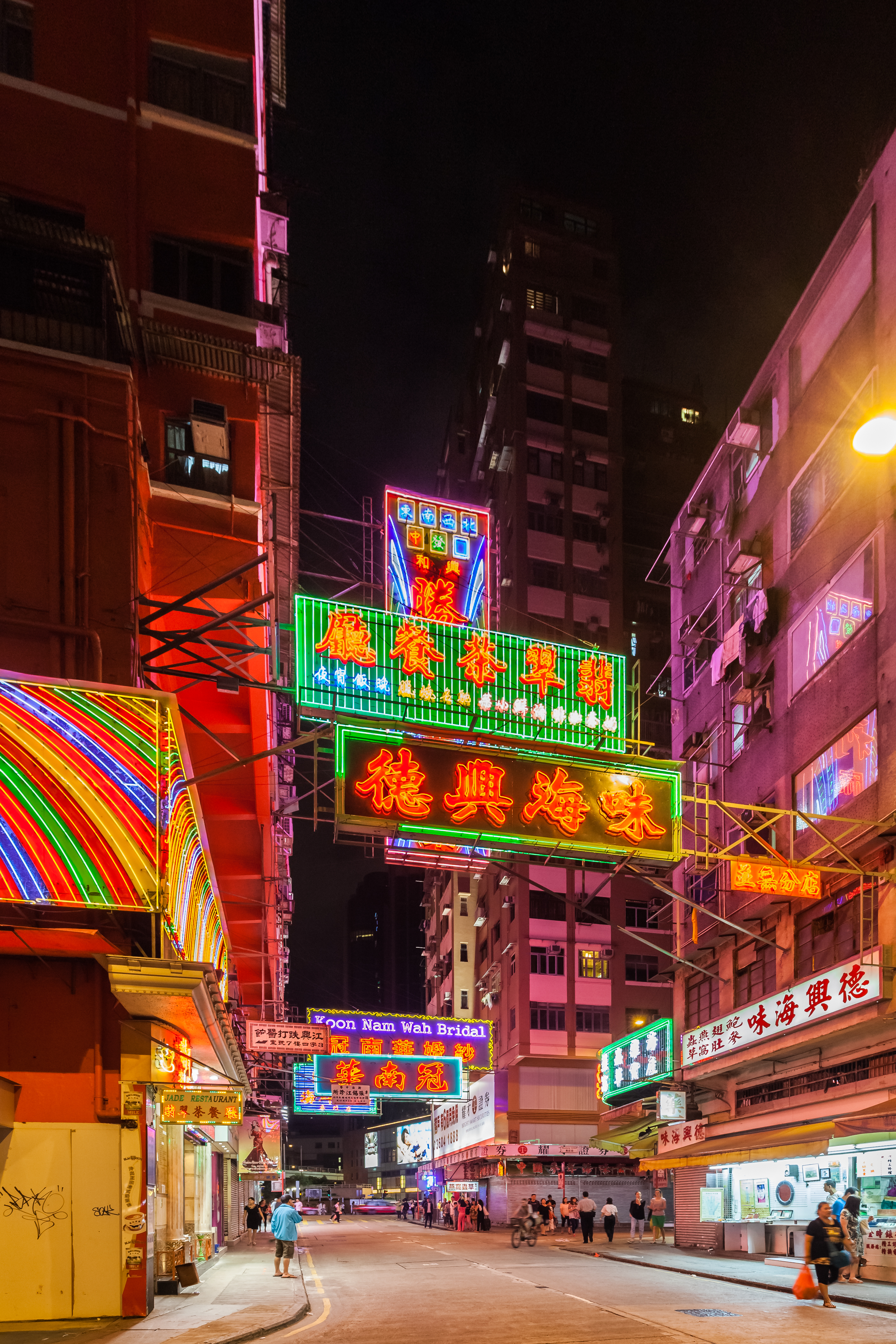 Market in Temple St., Hong Kong